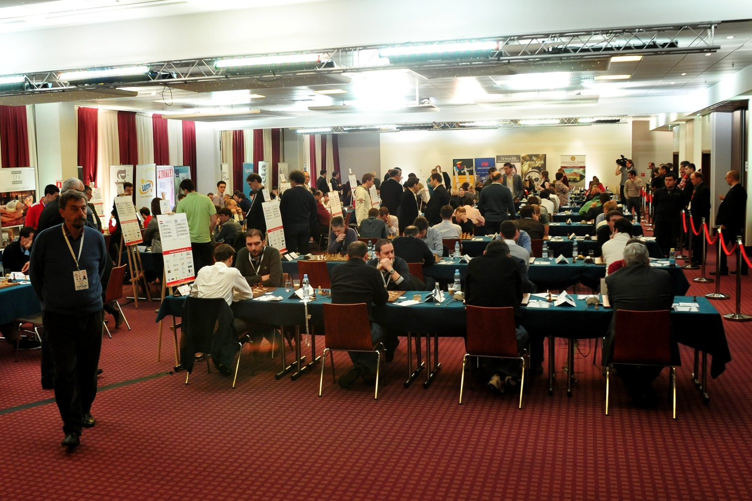 European Chess Team Championship, Hotel Novotel, Warsaw 2013